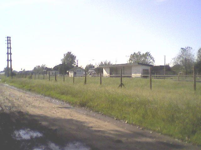 Marinos del Crucero General Belgrano railway station, in the rural area of Merlo.